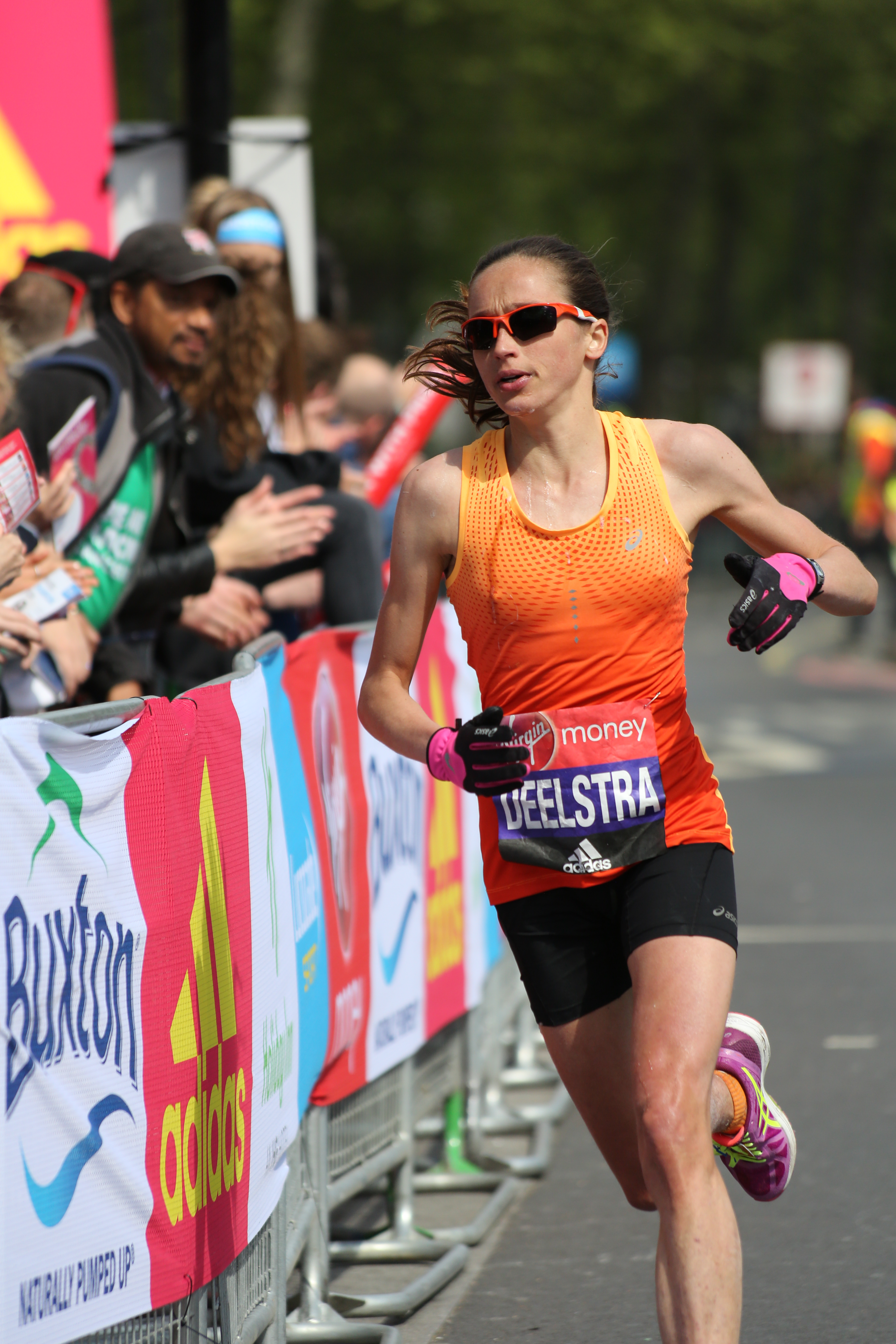 2017 London Marathon – Andrea Deelstra